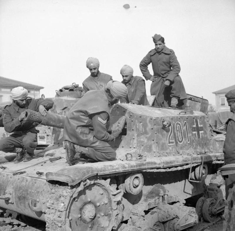 The British Army in Italy 1945 Indian troops inspect a captured Italian Semovente self-propelled guns in German markings at an exhibition of enemy equipment in Forli, 30 January 1945.